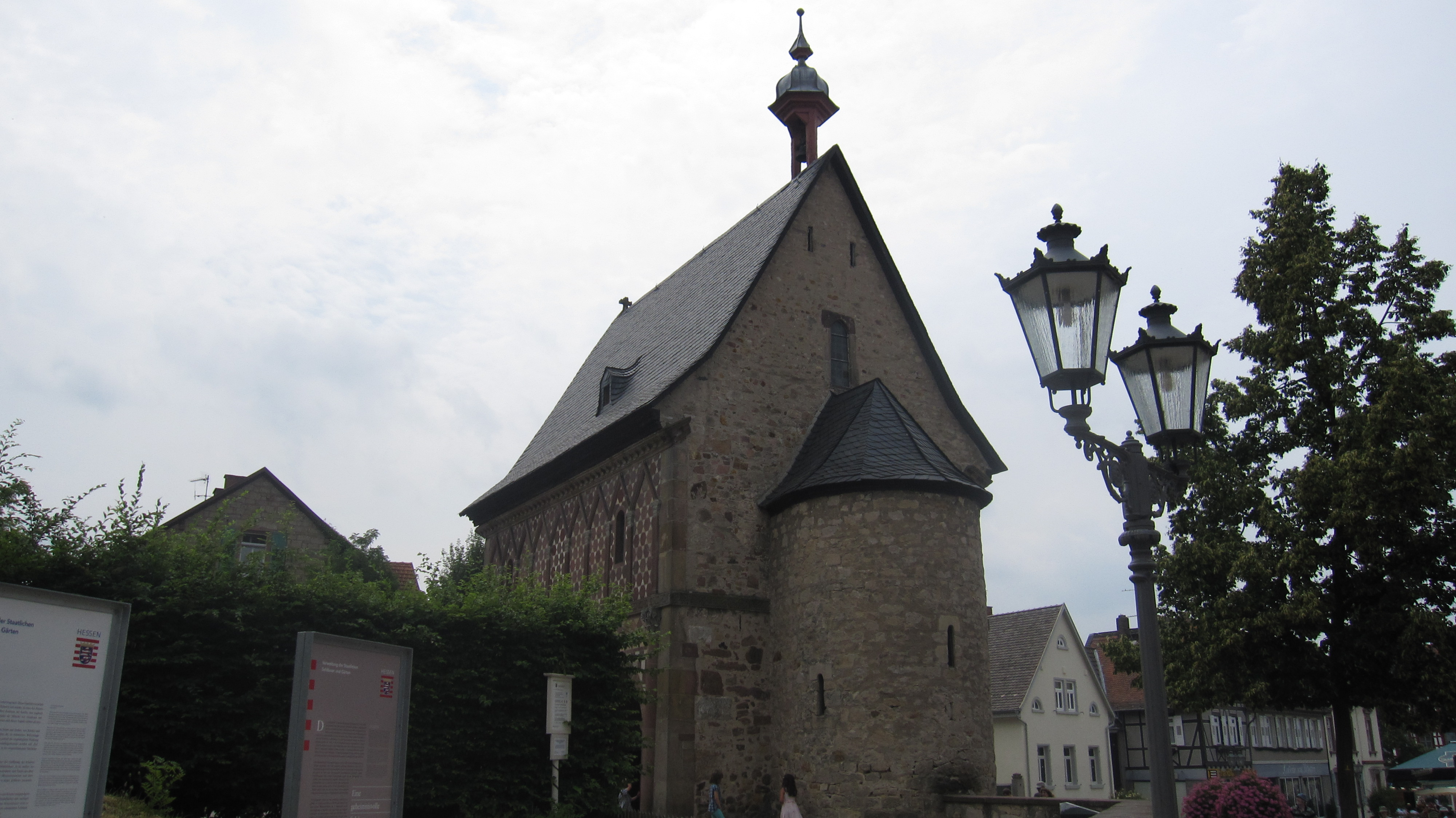 Lorsch Abbey, Hesse, Germany